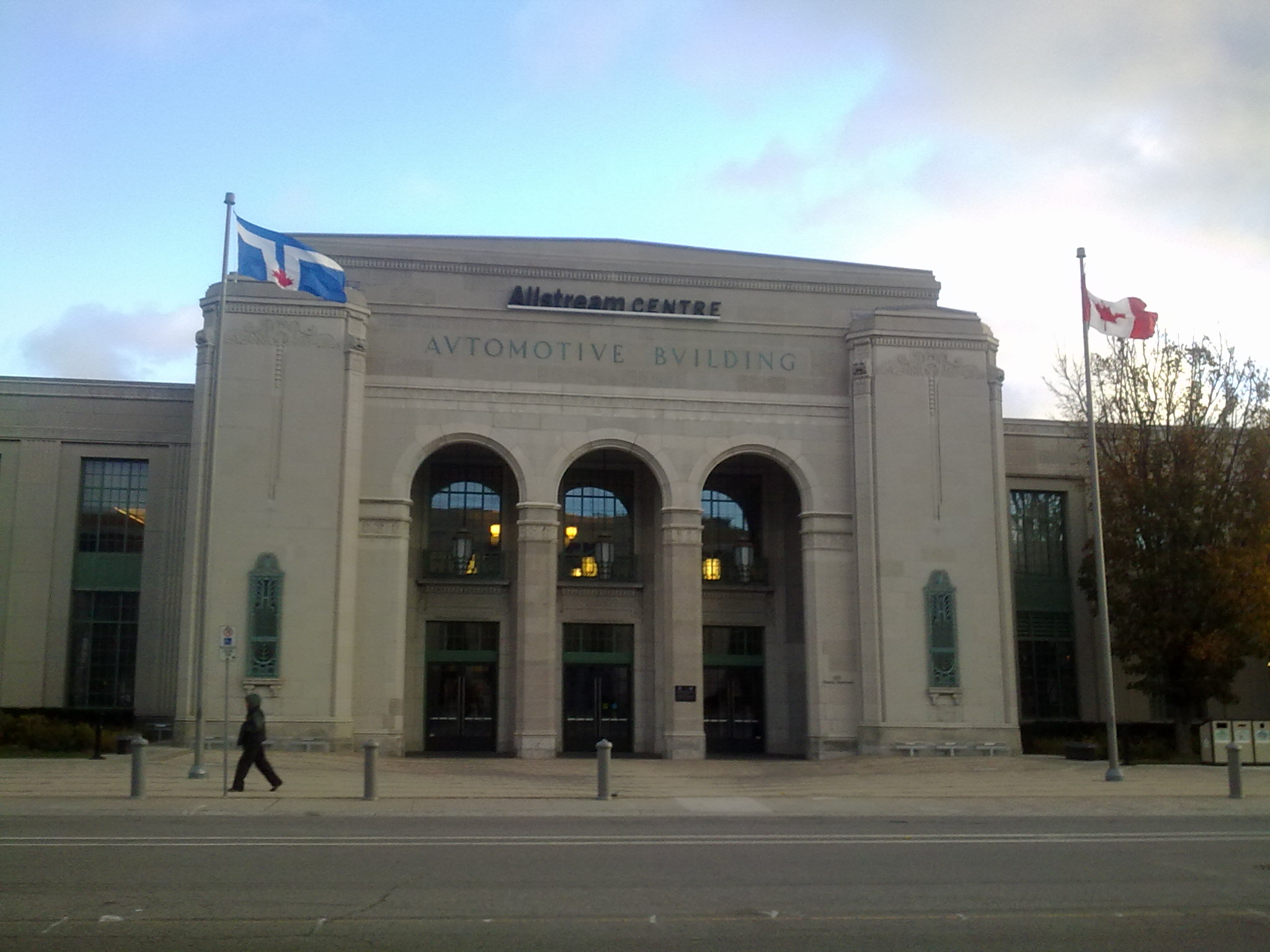 Automotive building, in Toronto, Ontario, Canada.